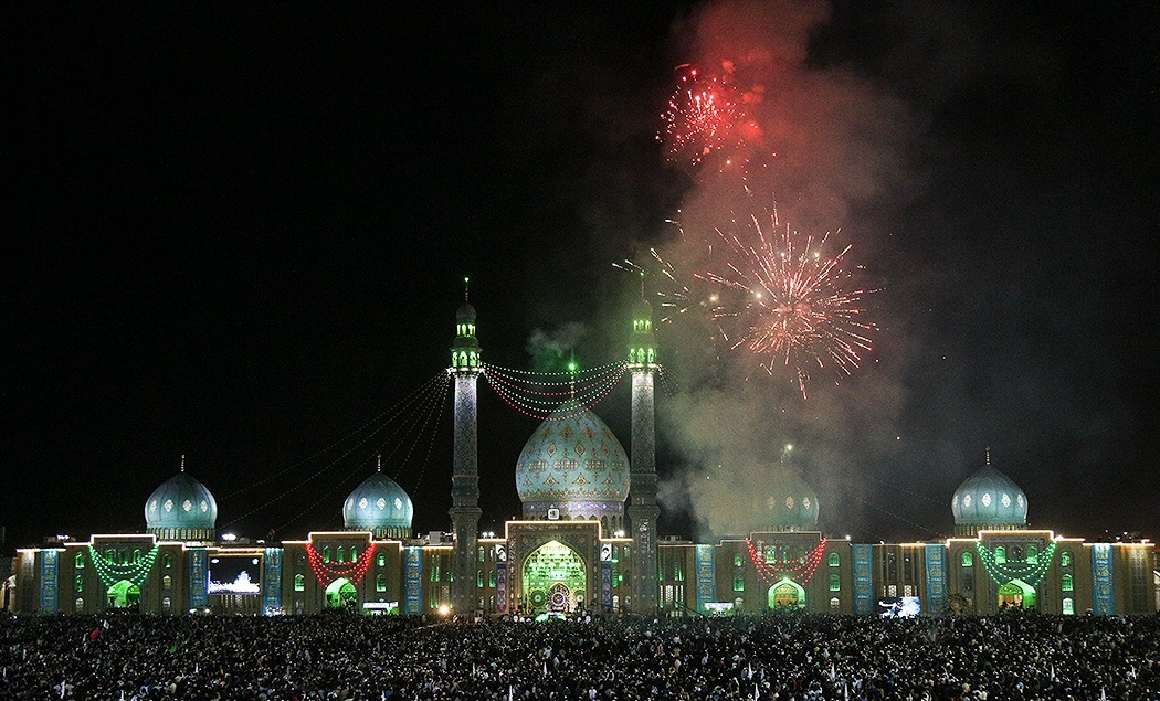 Mid-Sha'ban 1439 AH, Jamkaran Mosque, Qom ,main album